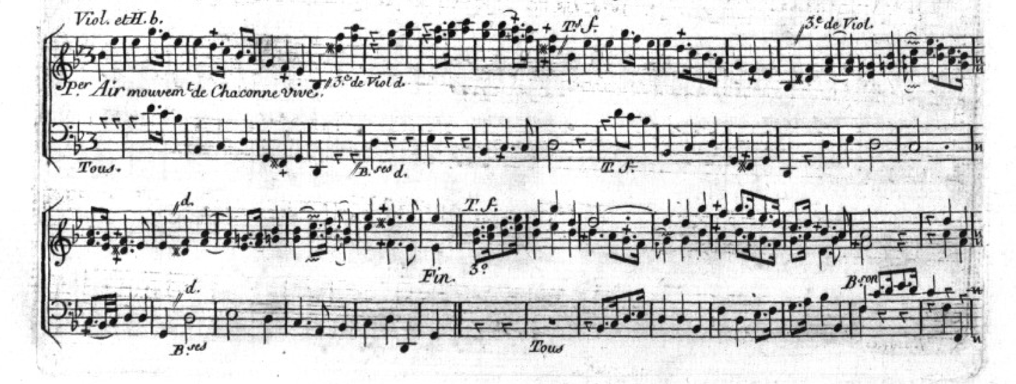 Jean-Philippe Rameau: Acanthe et Céphise (1751), Acte I, Air - mouvement de Chaconne vive (beginning)